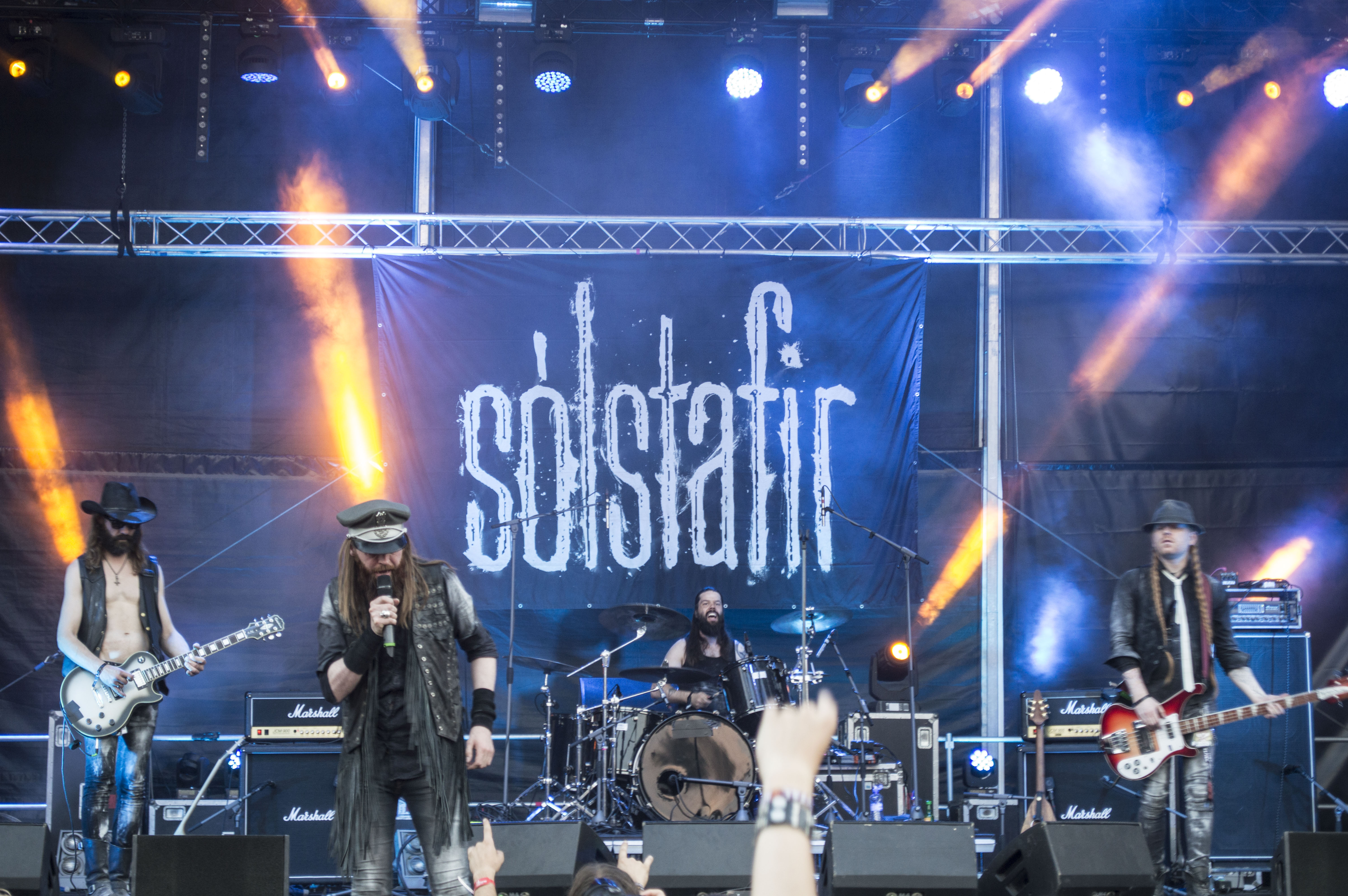 Band Sólstafir performing at Brutal Assault festival in Czech republic. 2015